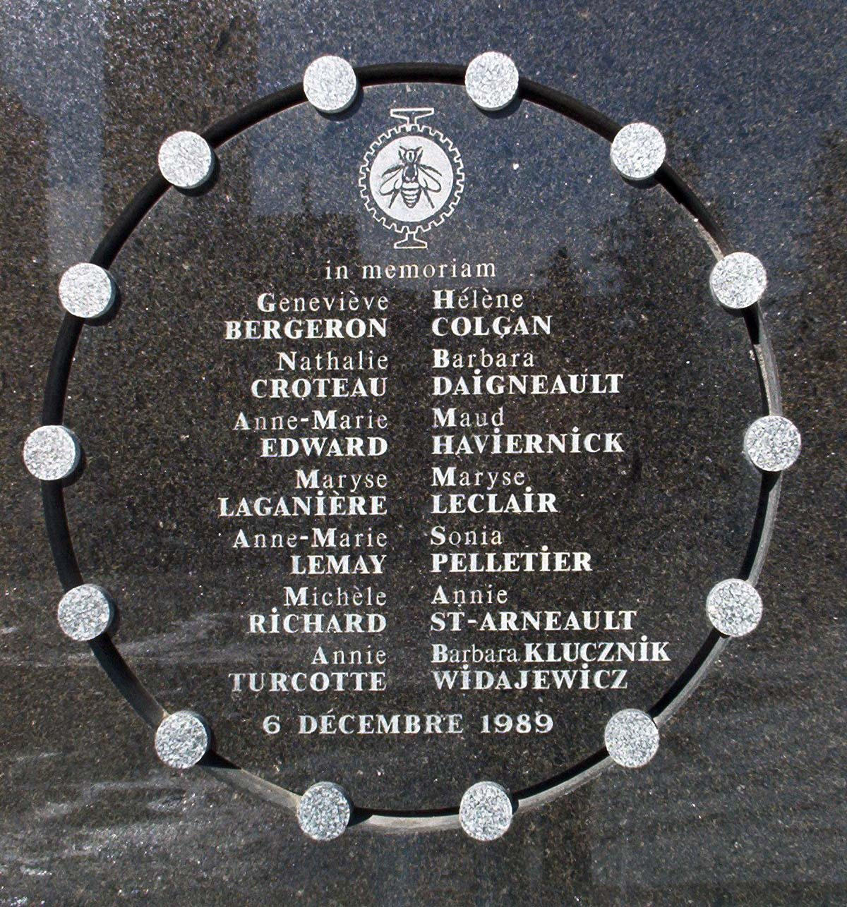 Plaque on the exterior wall of École Polytechnique commemorating the victims of the massacre. Memorial plate on the side of École Polytechnique.